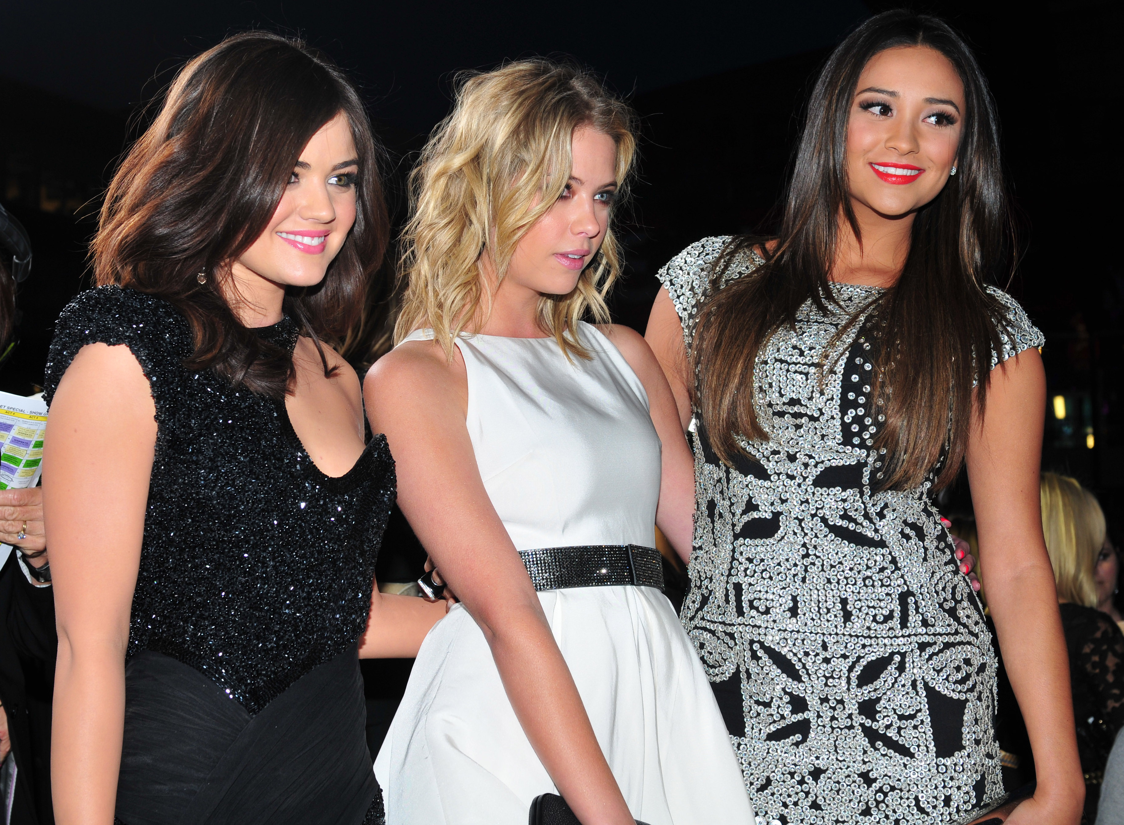 Lucy Hale, Ashley Benson, and Shay Mitchell on the red carpet at the 38th People's Choice Awards on January 11, 2012, at the Nokia Theatre in Los Angeles, California. (JJ Duncan/ )